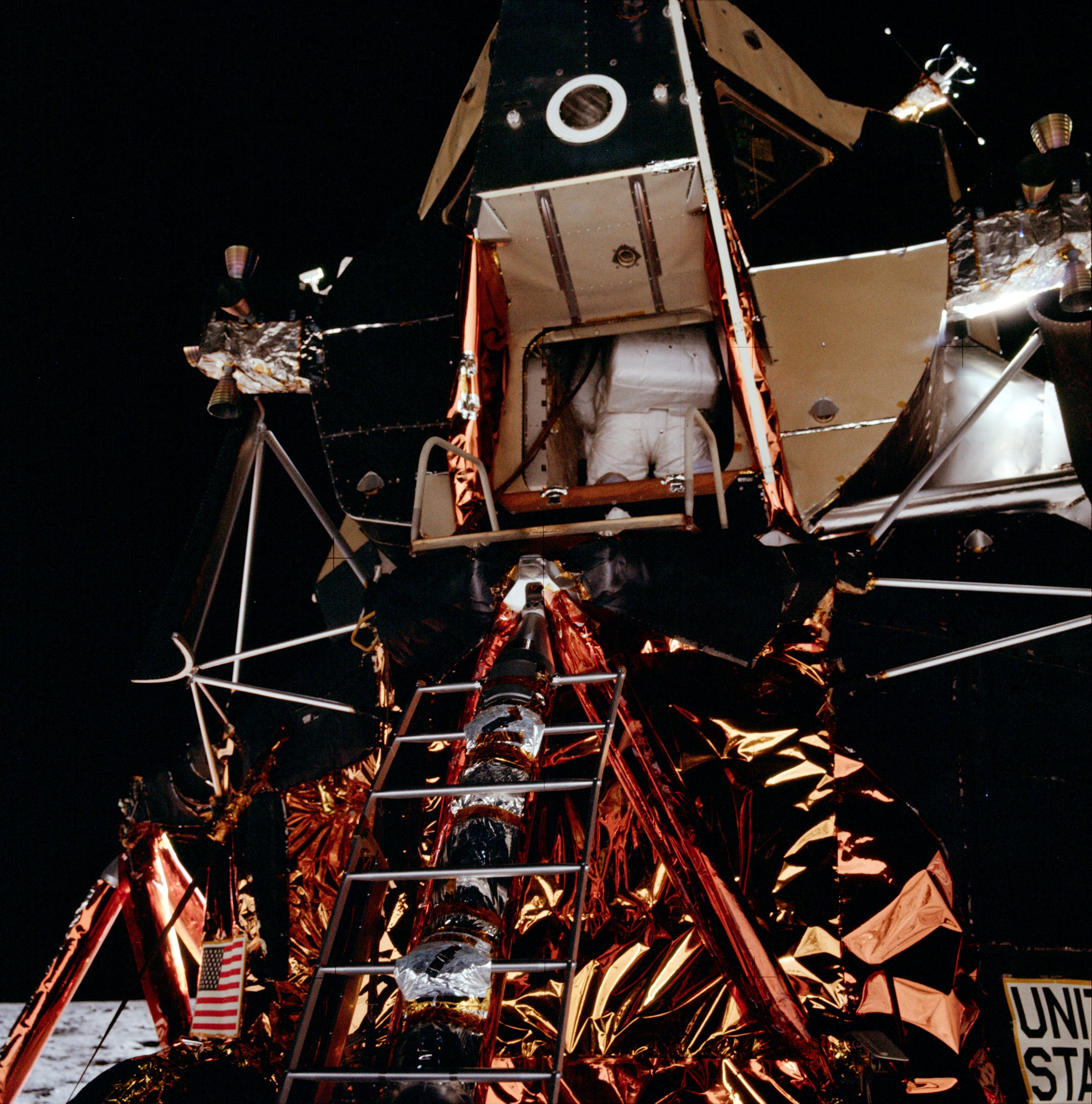 Apollo 11 astronaut Edwin E. Aldrin, Jr. leaves the Lunar Module Eagle to take his first steps as the second man on the moon. (mission time: 109:39:57)